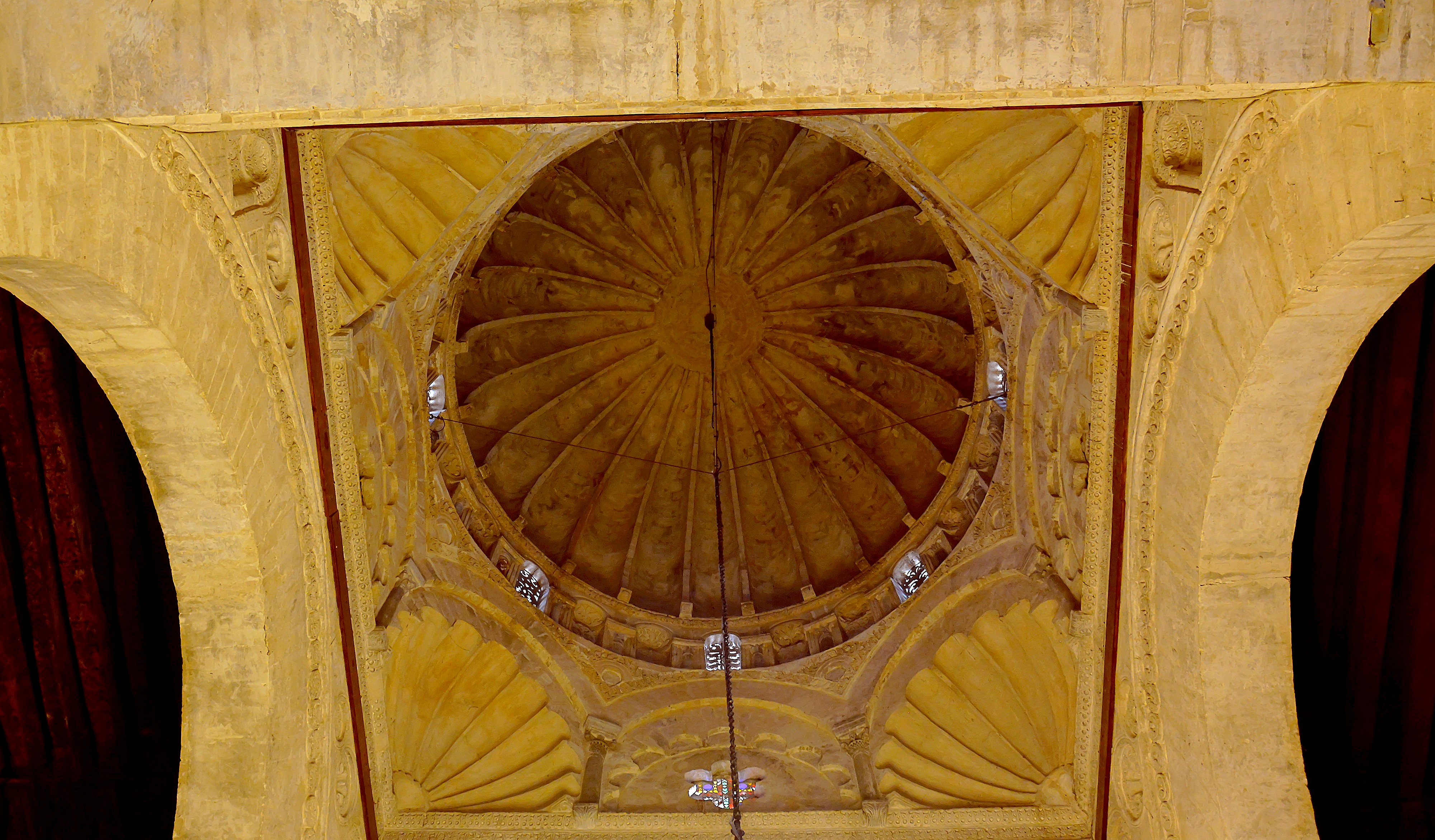 Grande Mosquée (Sidi Okba): details of the main dome